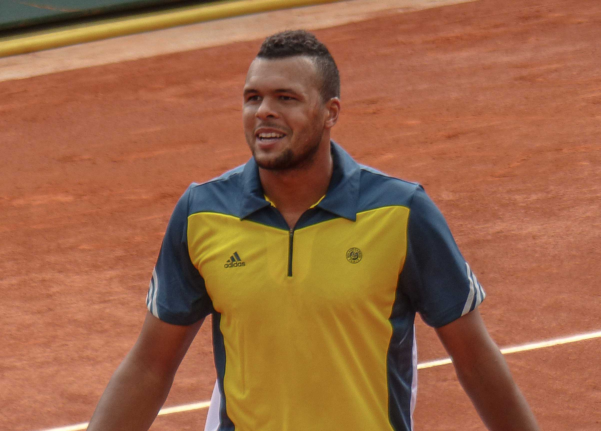 2ème tour Roland Garros 2013 : Jo-Wilfried Tsonga (FRA) def. Jarkko Nieminen (FIN)